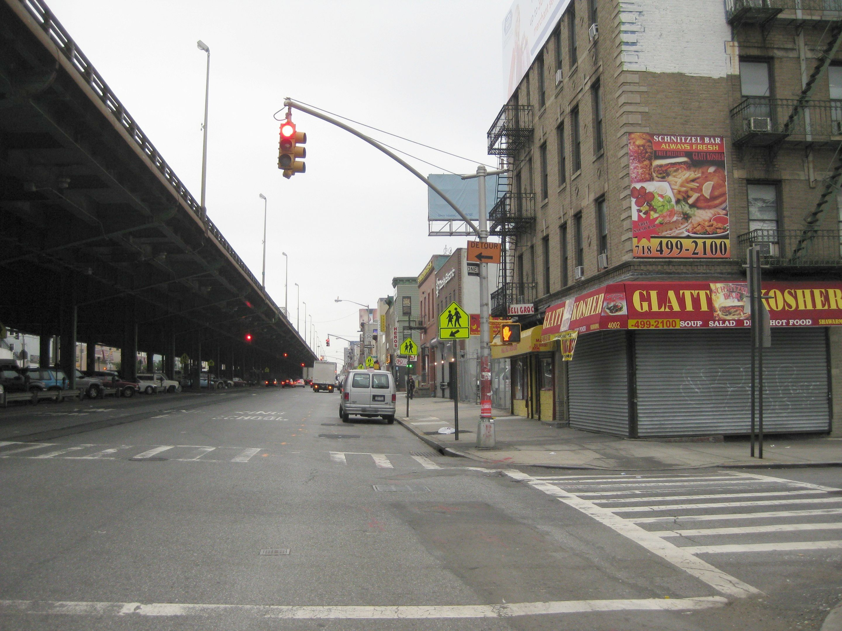 Third Avenue looking south, just north of 40th St